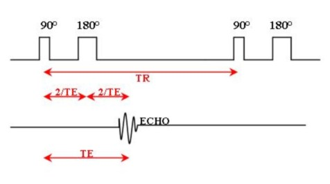 spin-echo sequence scheme